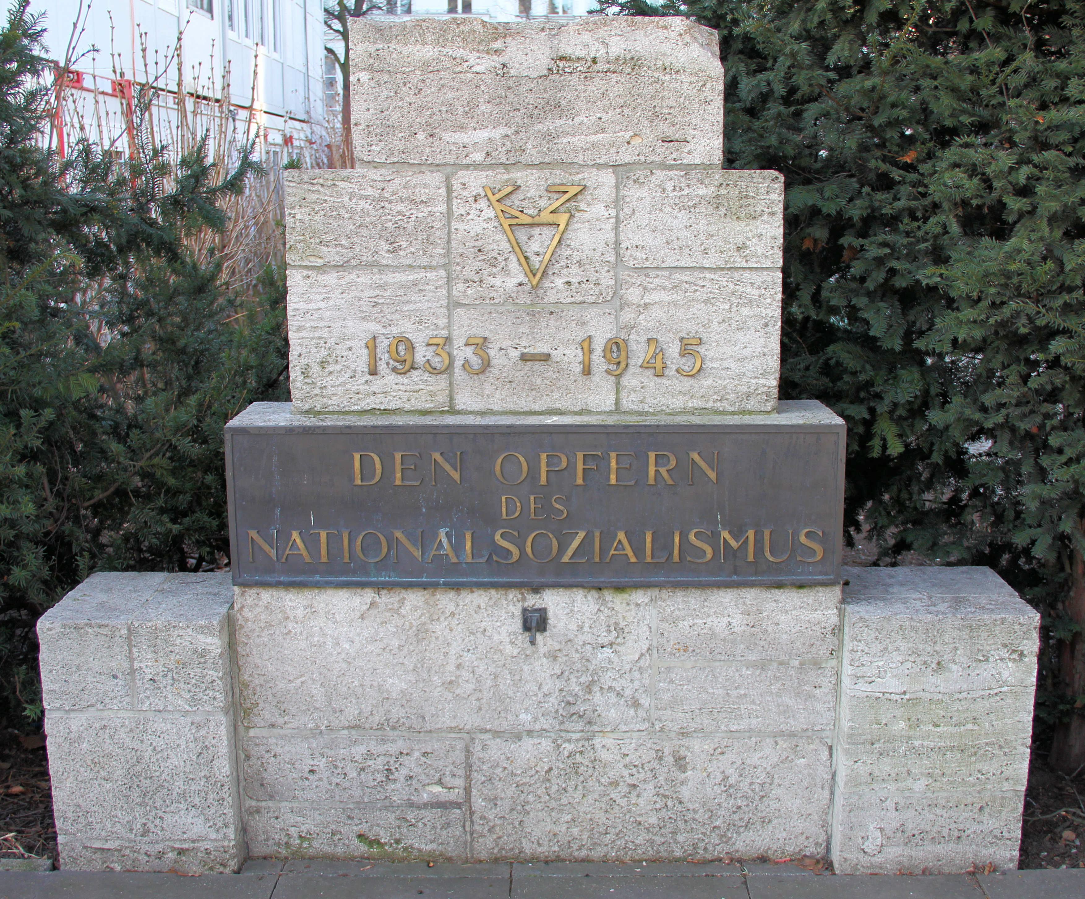 Memorial stone, NS-Opfer, 1953, Steinplatz, Berlin-Charlottenburg, Germany